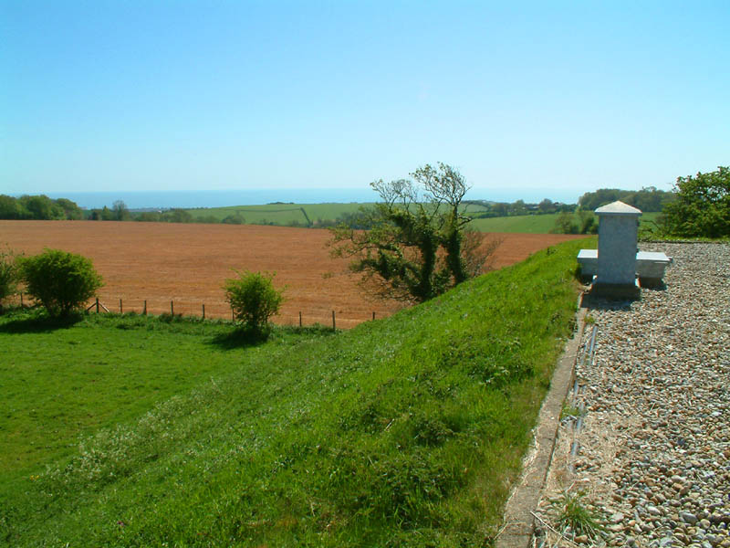 The English Channel from Cheriton Hill, part of the North Downs, near Folkestone in Kent. Photograph by Stephen Dawson, 4 May 2003.